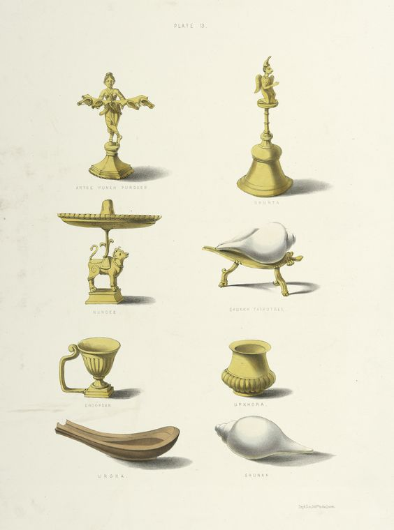 Image Title: [Puja items]: artee puneh purdeep, Nundee [Nandin, or Nandi], dhoopdan [dhupadana], urgha, ghunta [ghanta], shunkh taiputree [sankha triputri], upkhora, shunkh [sankha]. Creator: Day & Son -- Lithographer Additional Name(s): Belnos, S. C., Mrs. -- Artist Medium: Lithographs -- Color Item Physical Description: Eight images on one plate. Item/Page/Plate: Pl. 13 Notes: Nandi-linga, Sankha. Source: The Sundhya or the Daily Prayers of the Brahmins. Illustrated in a series of original drawings from nature, demonstrating their attitudes and different signs and figures performed by them during the Ceremonies of their Morning Devotions, Poojas, etc. Source Description: 3 v. : [24] leaves of col. plates. ; 58 x 75 cm. Location: Stephen A. Schwarzman Building / Asian and Middle Eastern Division Catalog Call Number: *OLV+++ (Belnos, S. C. Sundhya ) Digital ID: 481298 Record ID: 103583 Digital Item Published: 2-3-2004; updated 3-25-2011 Browse More Sources, libraries, guides, online catalog The Sundhya or the Daily Prayers of the Brahmins. Illustrated in a series of original drawings from nature, demonstrati... Asian and Middle Eastern Collections Collection Guide Library Catalog Record Link Permalink (click to copy): Embed this image (click code)